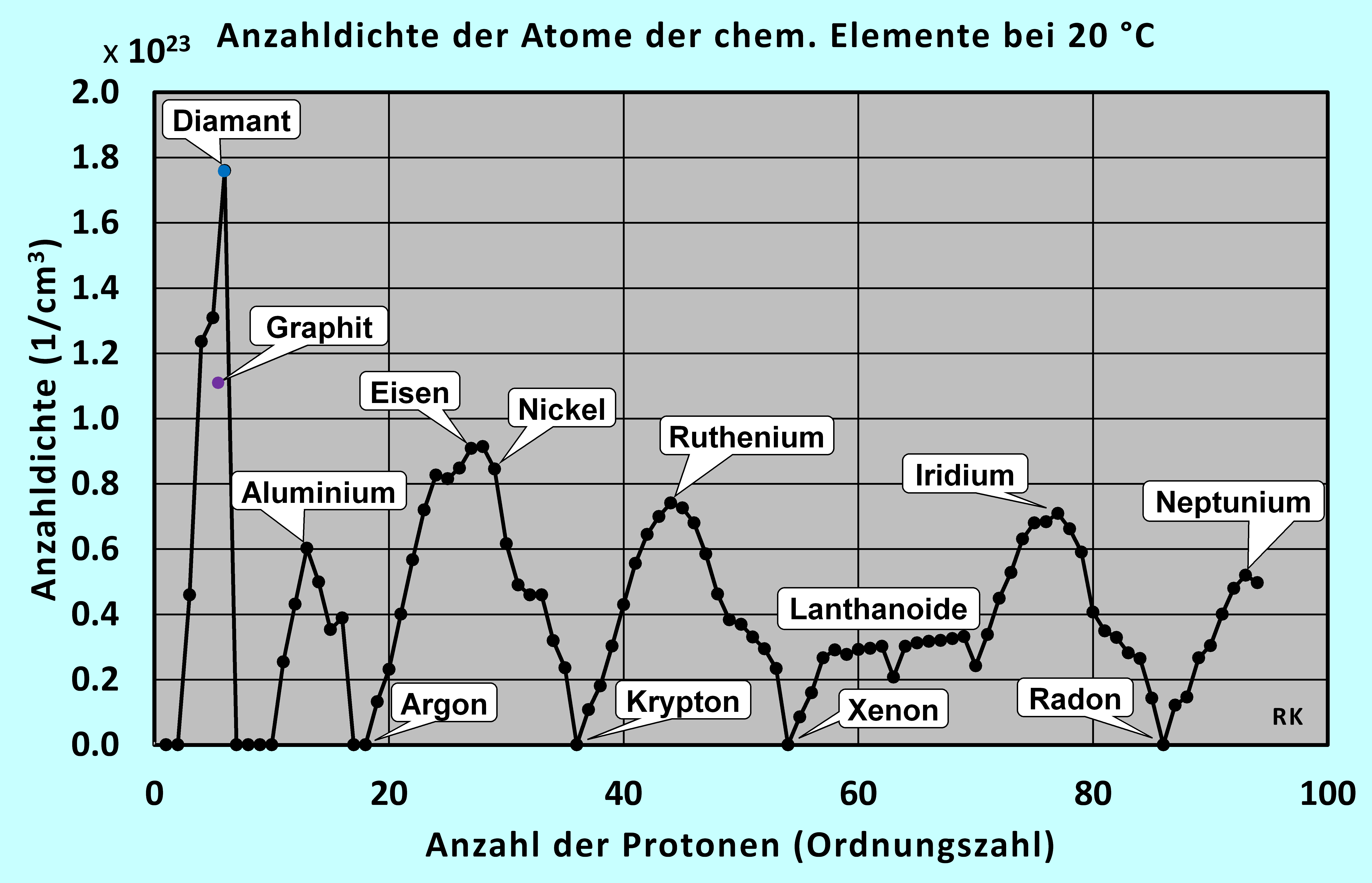 Number densities of the atoms of the chemical elements at 20 °C